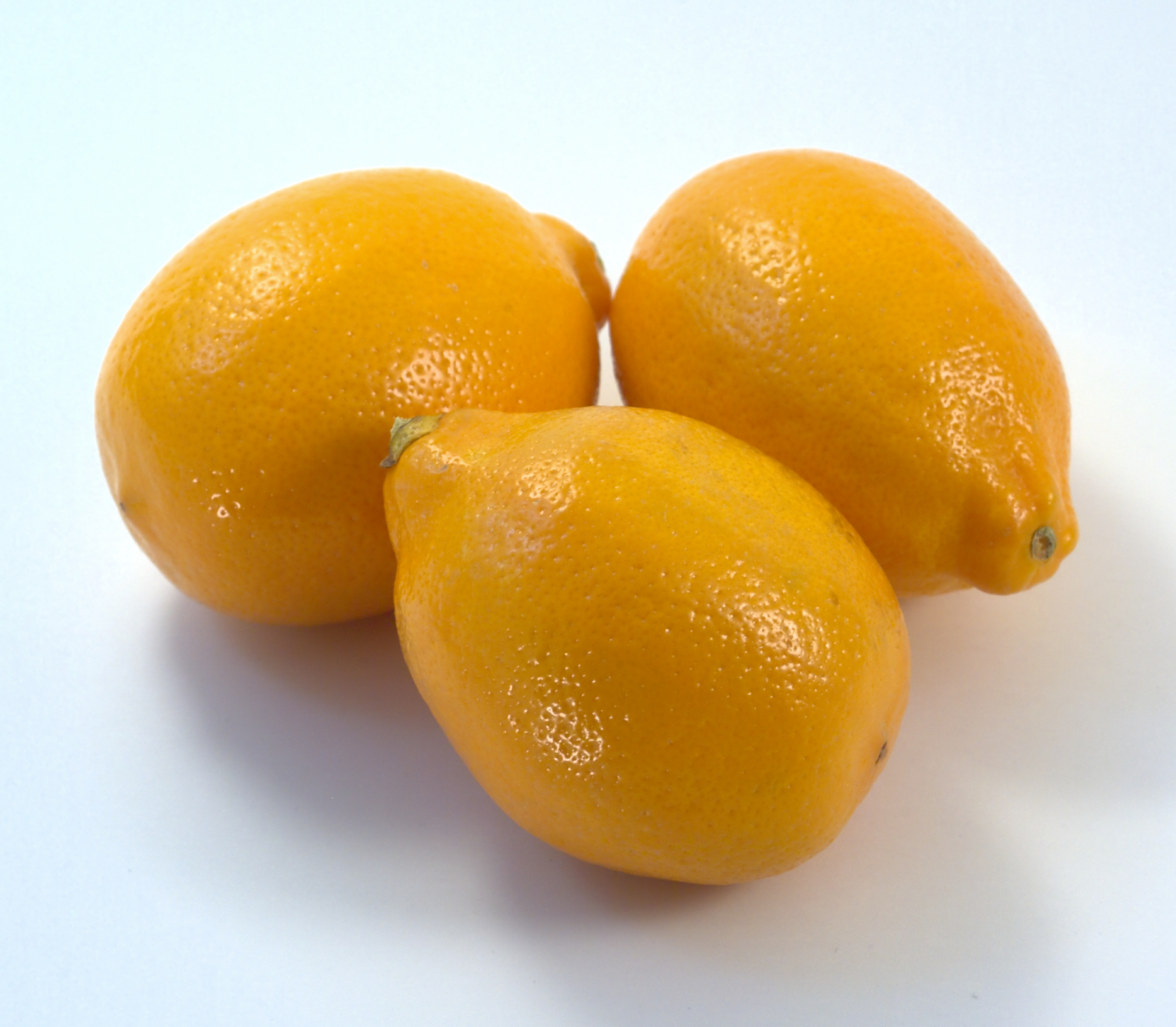 Ripe Meyer lemons, Citrus × meyeri.